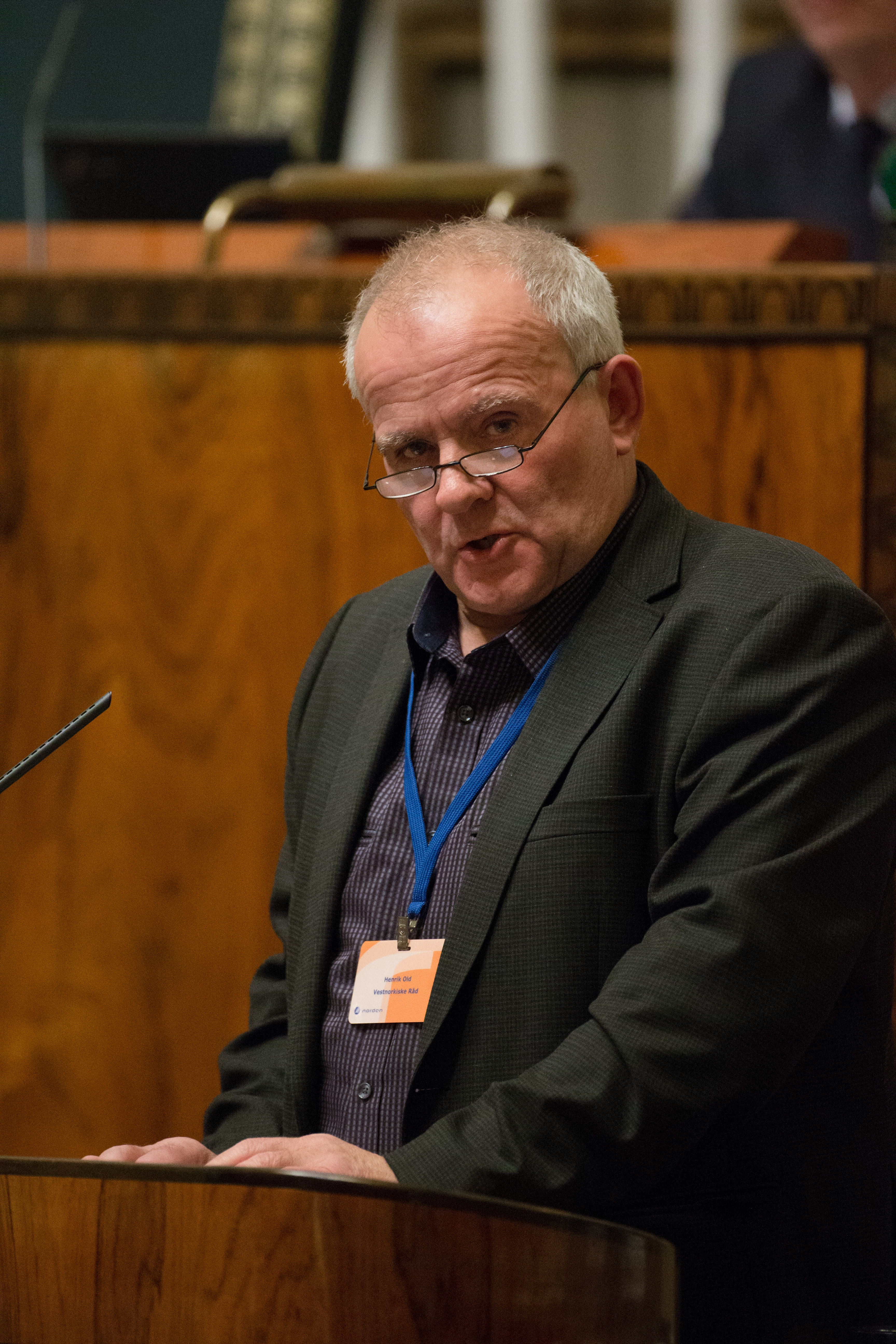 121031 Henrik Old vid Nordiska rådets session i Helsingfors 2012.